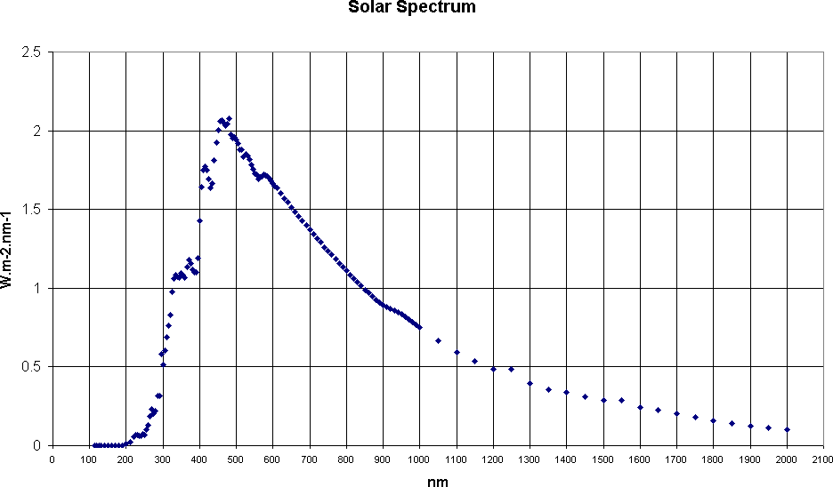 Thekaekara Solar Spectrum plot from 100 nm upto 2000 nm from AM0 data